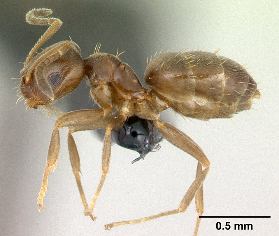 Profile view of ant Brachymyrmex cordemoyi specimen casent0109850.